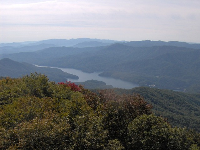 Looking southeast from the firetower at the summit of Shuckstack (el. 4,020 feet/1,225 meters) in the Great Smoky Mountains. Fontana Lake is below, and Nantahala Mountains of North Carolina are beyond. Fontana forms the southwestern boundary of the Great Smoky Mountains National Park.